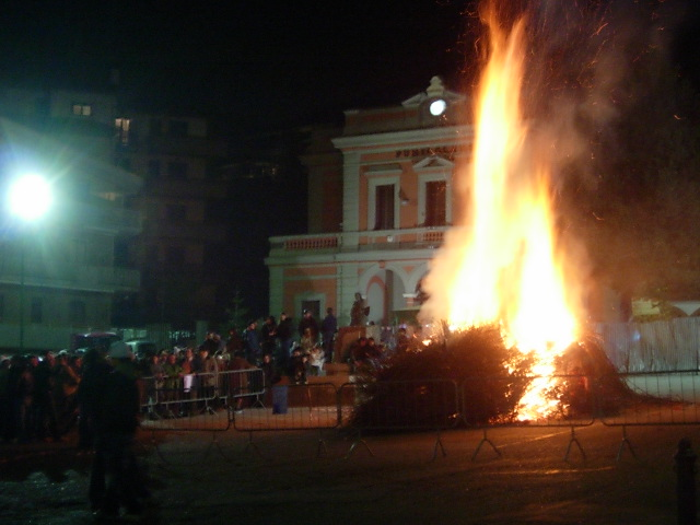 Mercogliano is a little town near by Avellino (Campania, Italy). Here, on February the 14th , Saint Valentine’s day, people spent this party celebrating the patron of the place, Sanit Modestino.